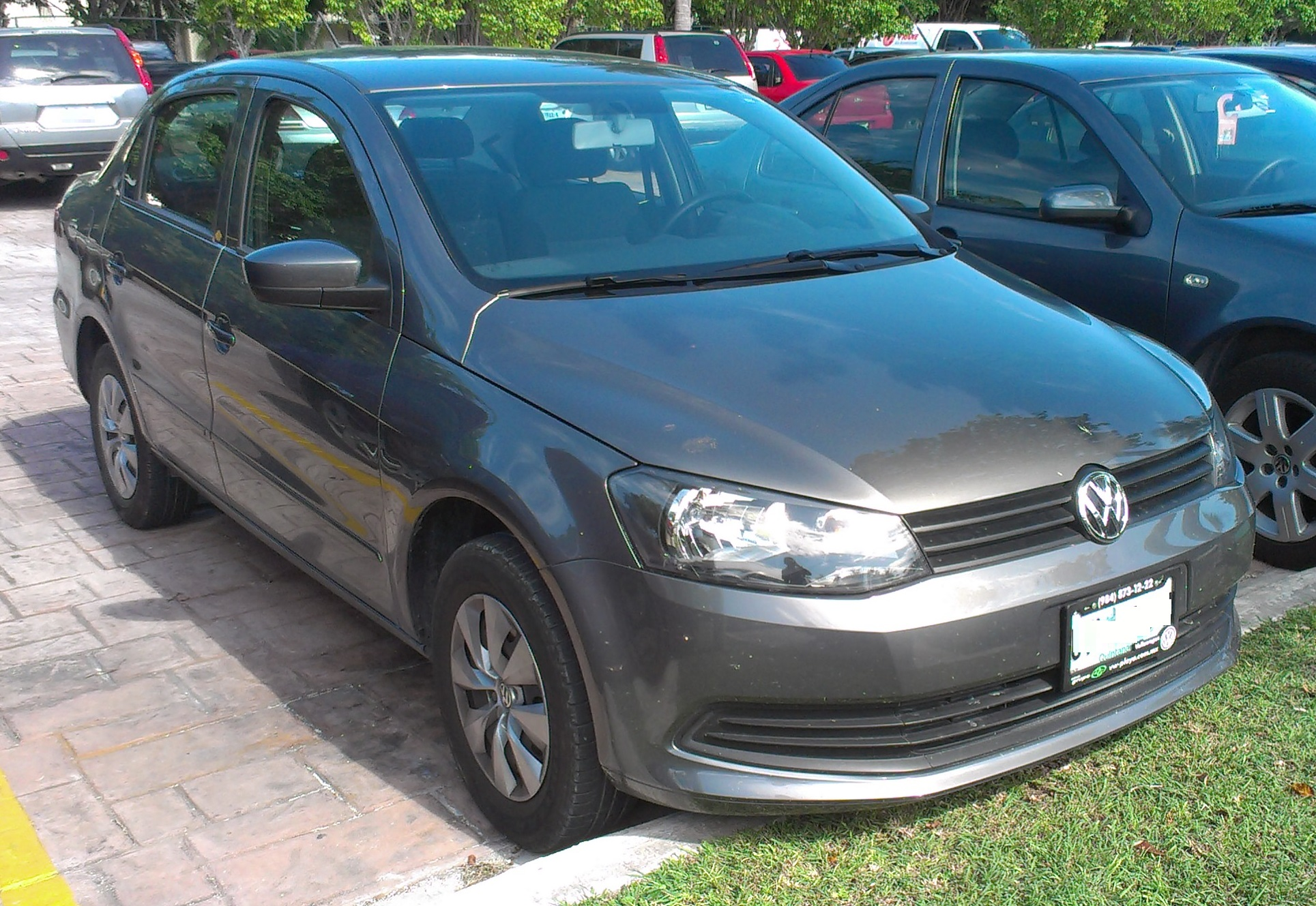 2014-present Volkswagen Gol photographed in Cancùn, Quintana Roo, Mexico.